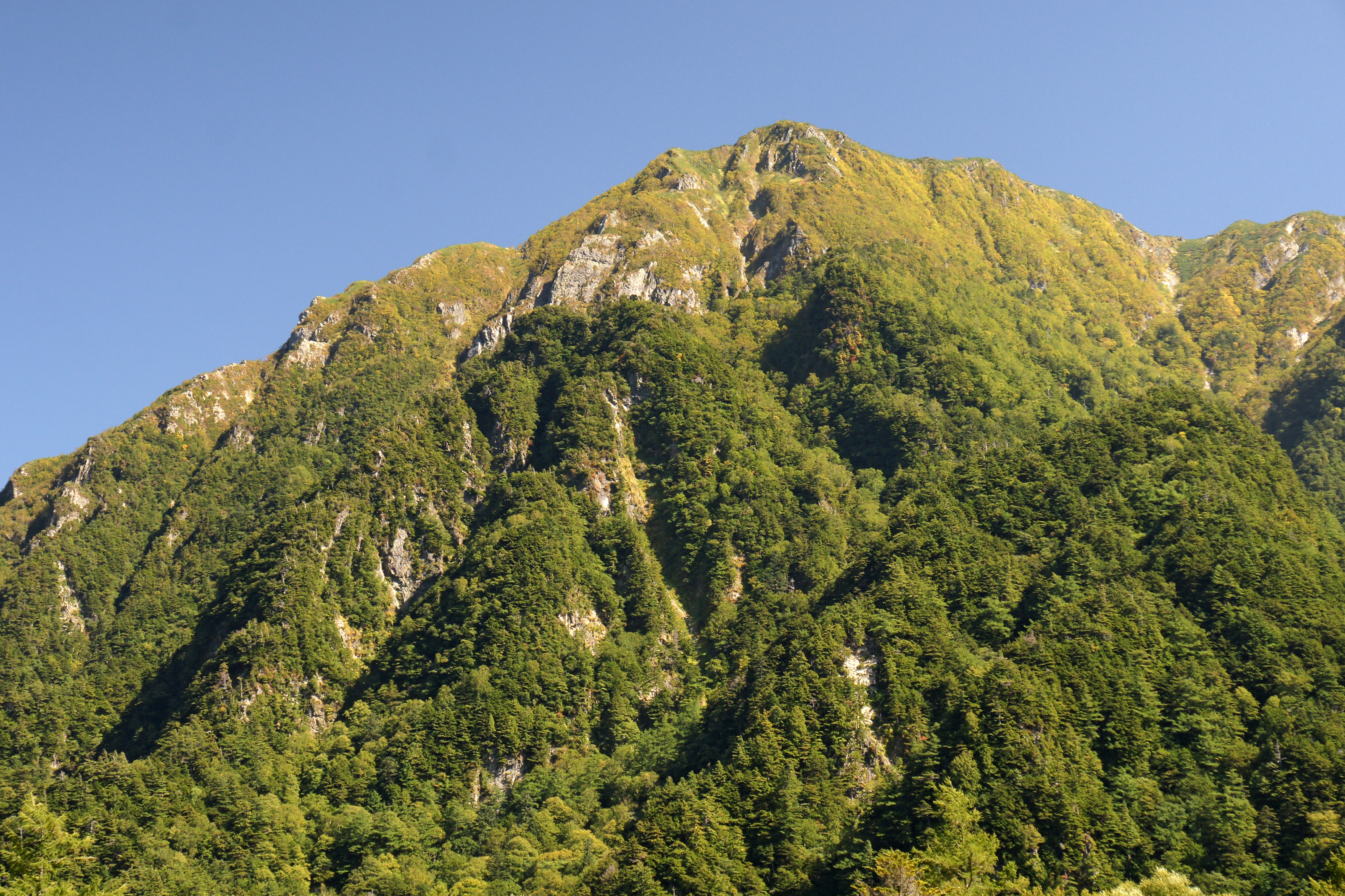 Mt. Roppyakusan at Kamikochi in Matsumoto, Nagano prefecture, Japan